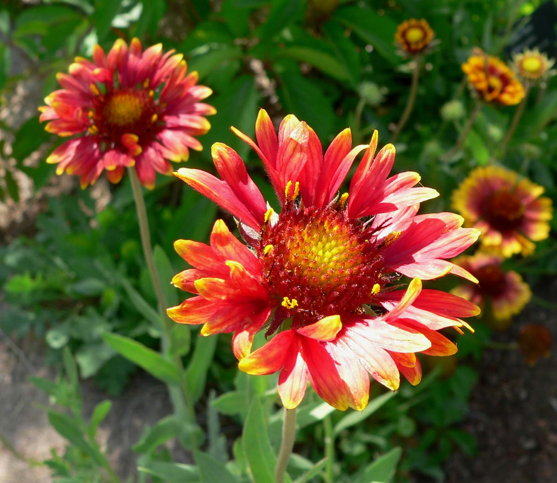 Photo of Gaillardia x grandiflora (hybrid blanketflower) at the Springs Preserve garden in Las Vegas, Nevada